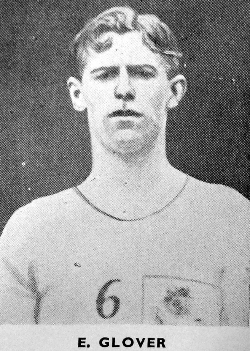 Ernest Glover of Hallamshire Harriers and Athletic Club, around 1912